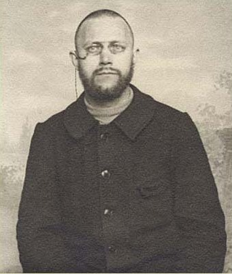 Photo of Swedish painter Ivan Agueli